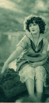 Marie Prevost, in "Brass", from a 1923 publication.